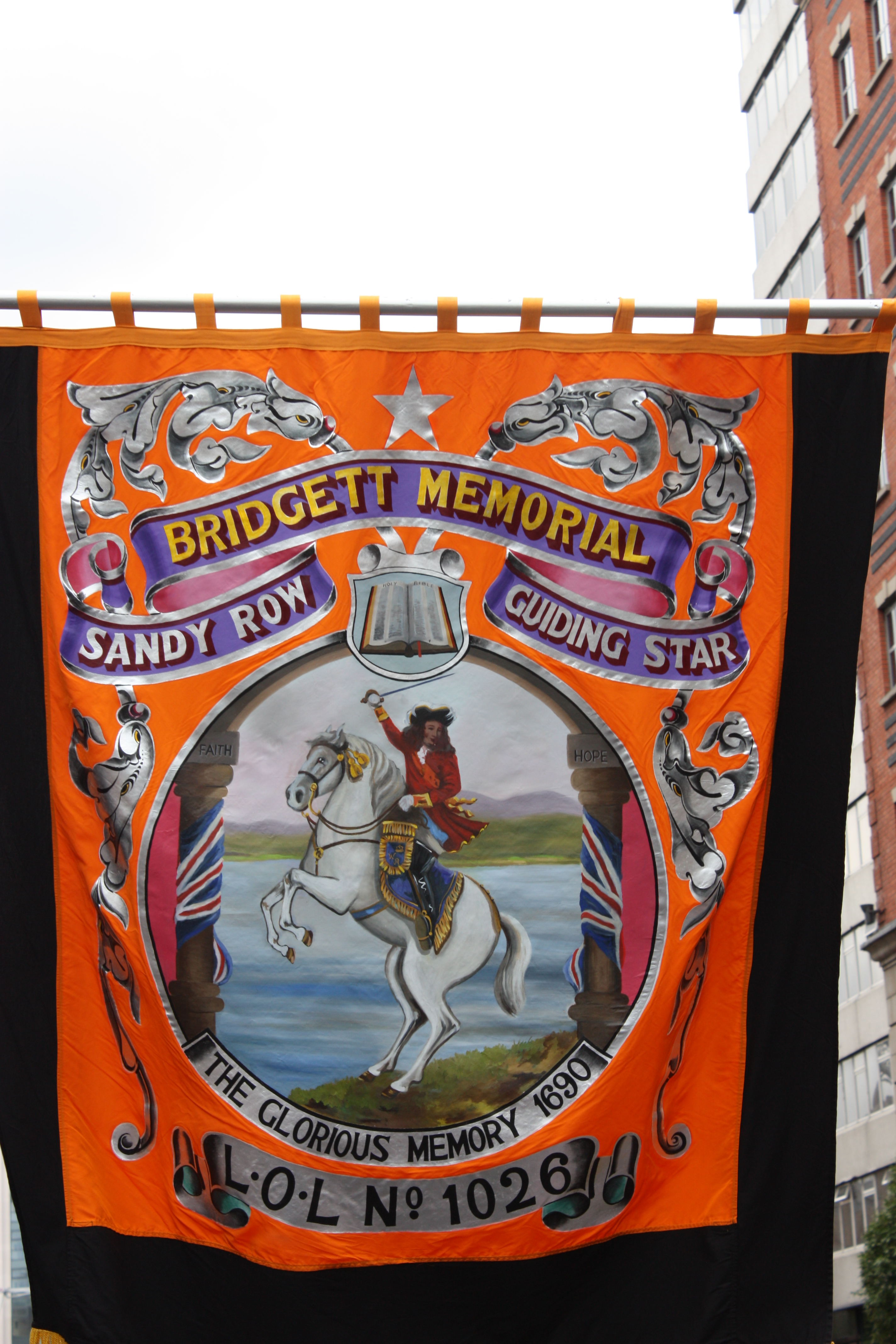 Banner, 12 July Orange Parades, Bedford Street, Belfast, Northern Ireland, July 2011 (Bridgett Memorial Loyal Orange Lodge 1026)